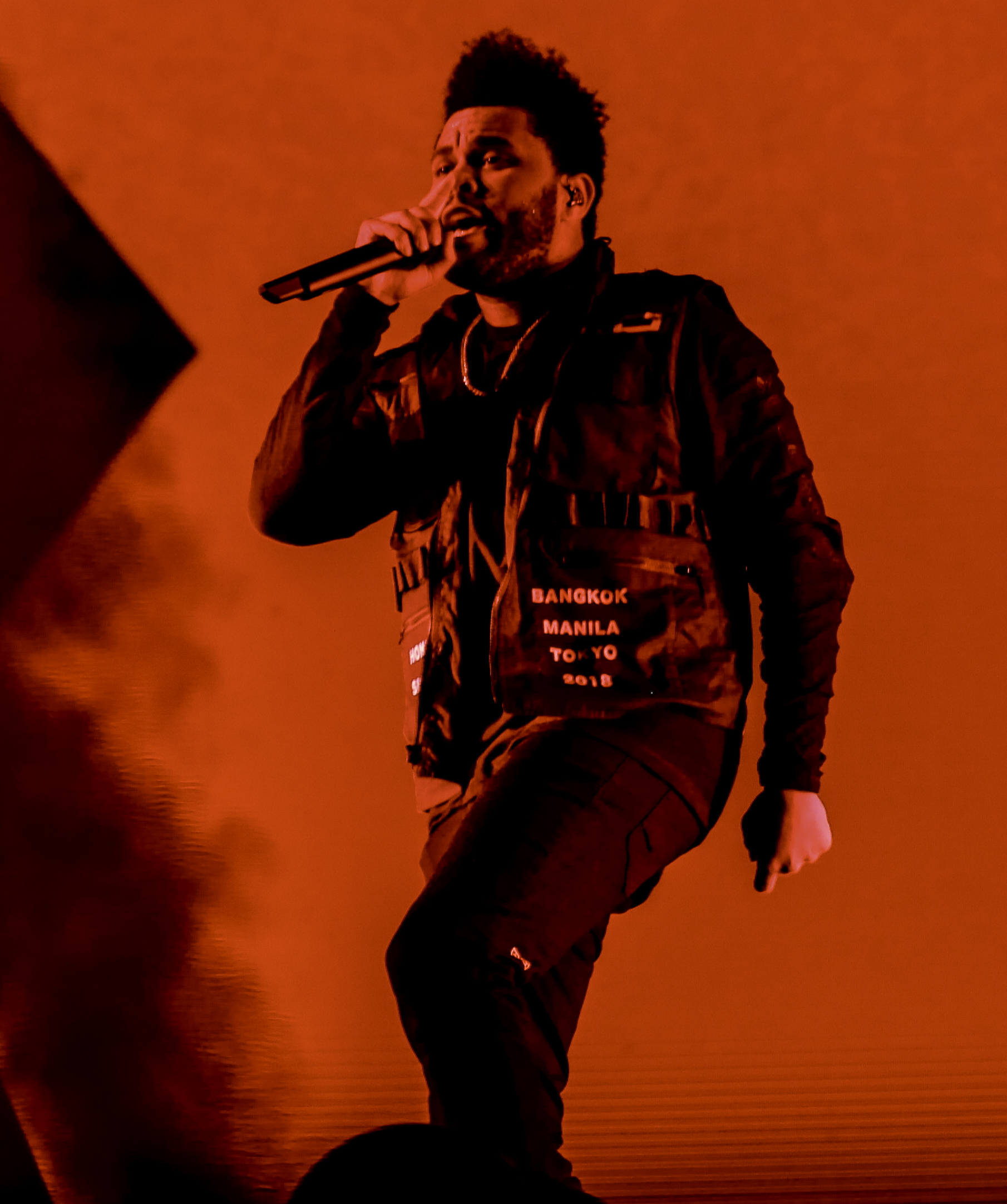 The Weeknd performing at Djakarta Warehouse Project in December 2018